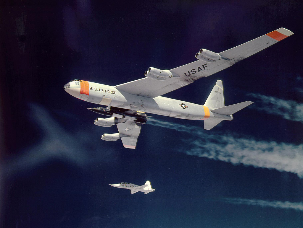 X-15 being carried by its NB-52B mothership (52-0008), with T-38A chase plane. San Diego Air and Space Museum Archives catalog #00043417.